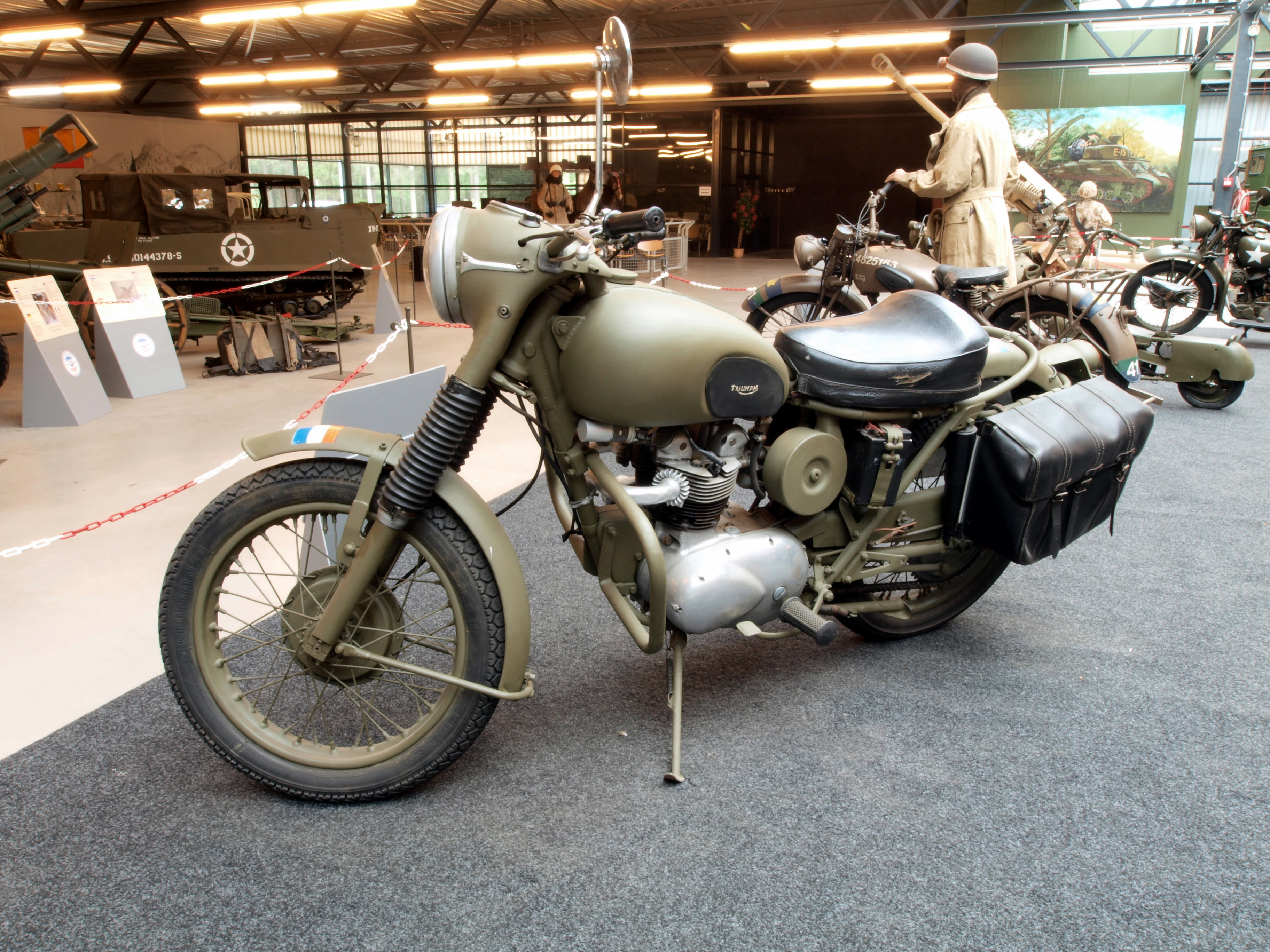 Photographed at the Marshallmuseum - Liberty Park - Oorlogsmuseum Overloon, The Netherlands. OLYMPUS DIGITAL CAMERA